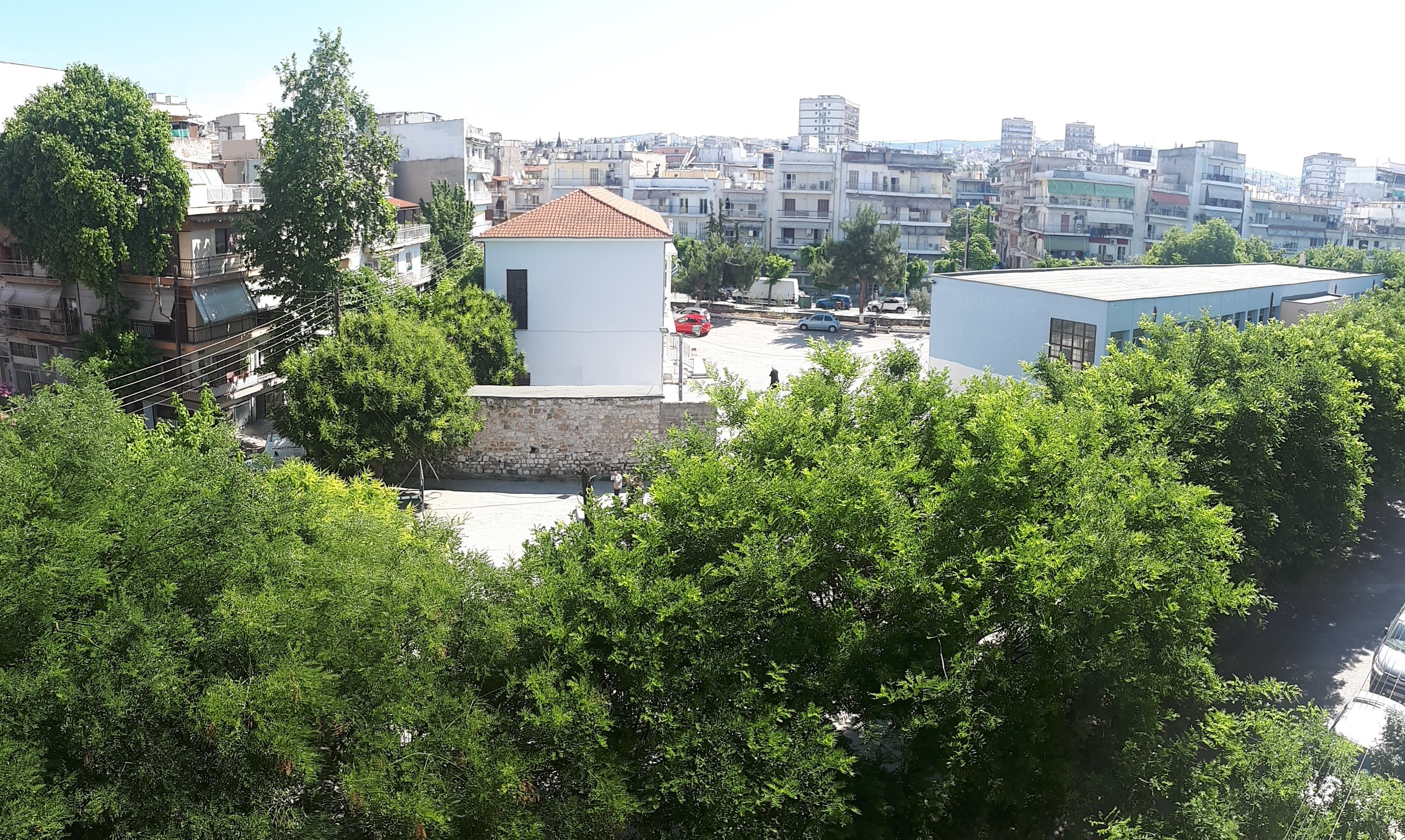 Xirokrini (neighborhood in Thessaloniki, Greece)